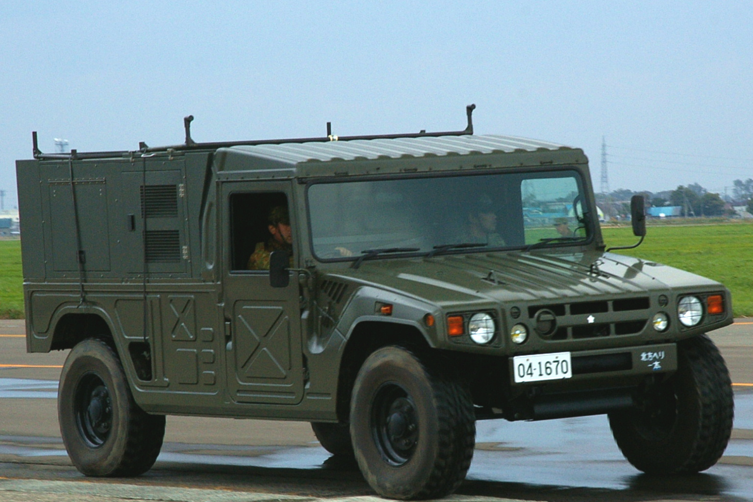 JGSDF Aviation power source car.